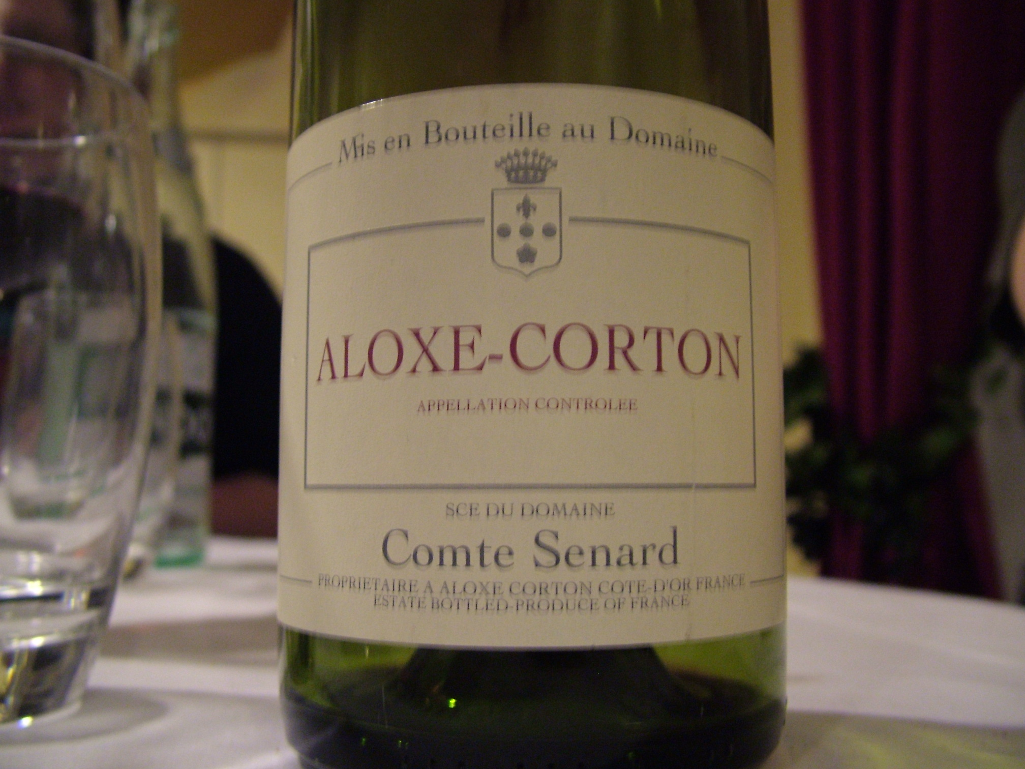 A bottle of the French wine Burgundy noting that it was bottled at the estate and not by a Co-op or negociant